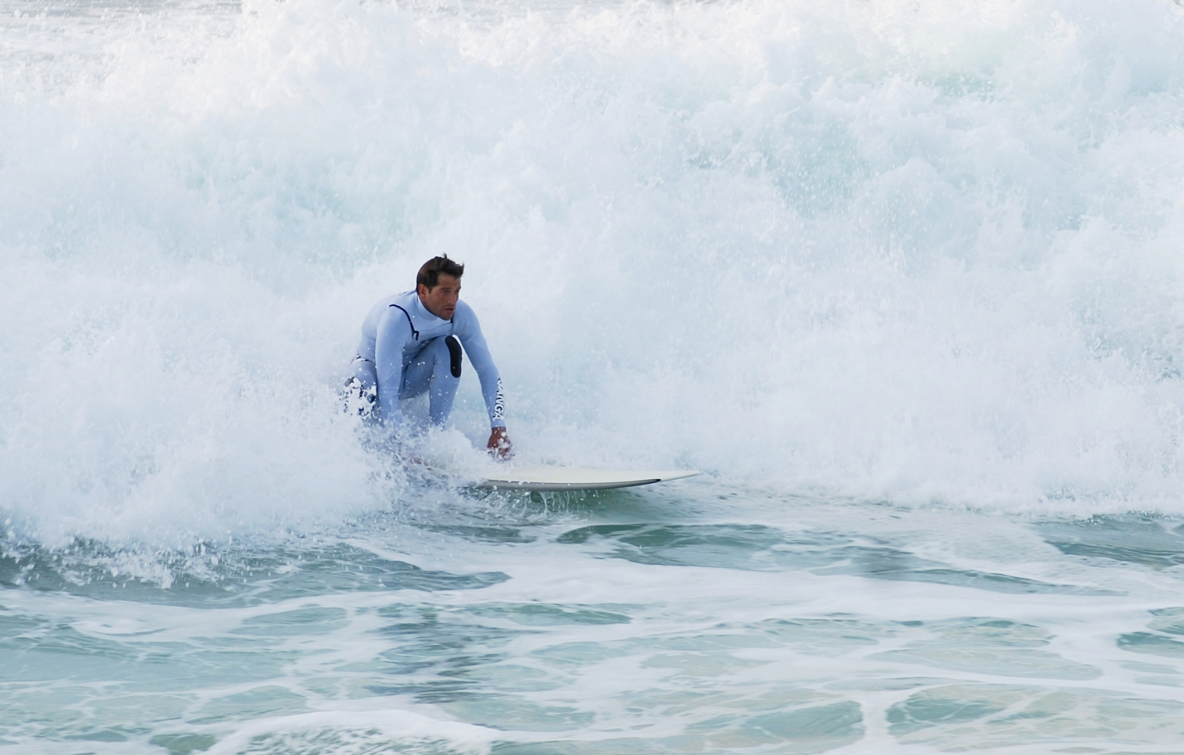 Surfer at the beach of Costa da Caparica, Portugal